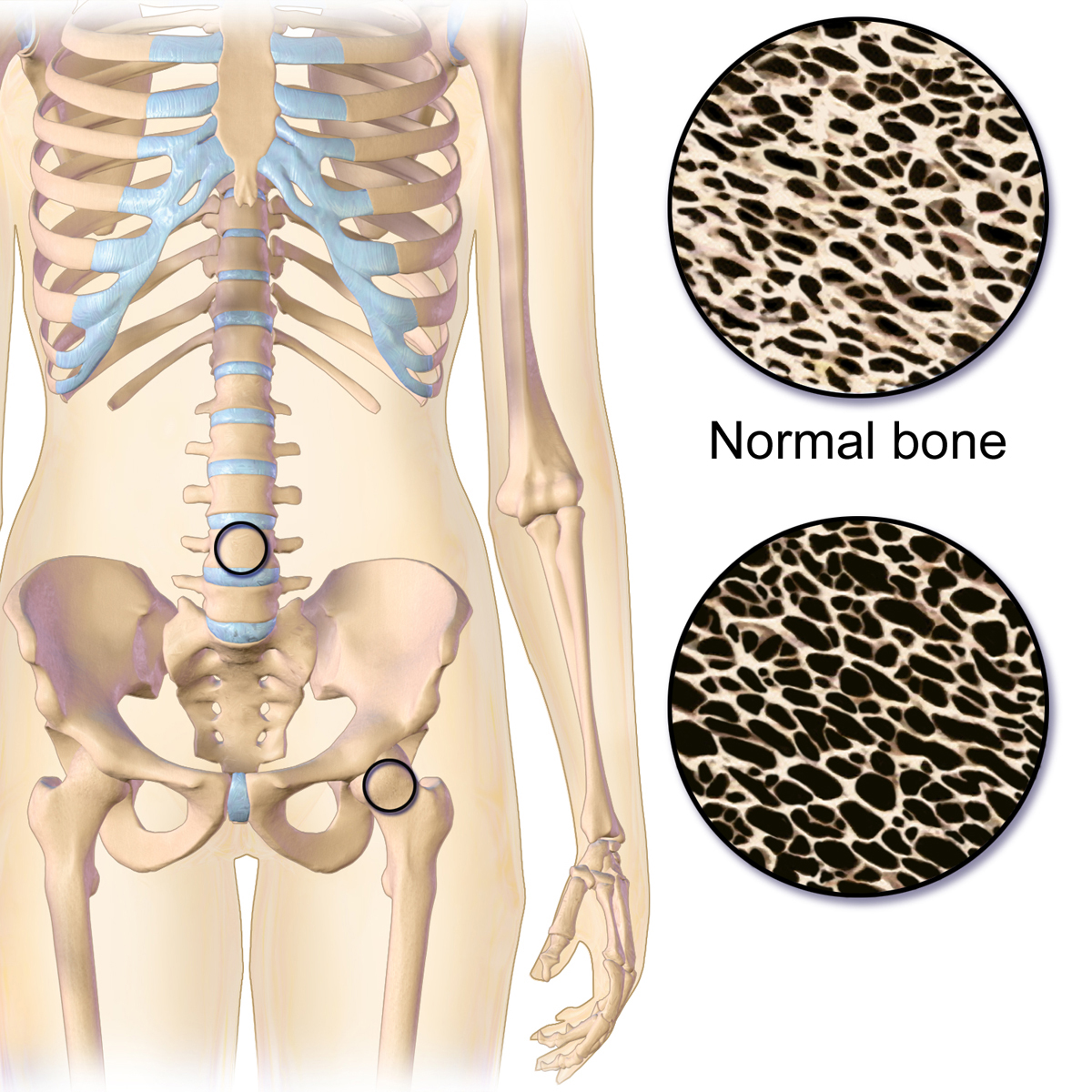 Osteoporosis effect and locations. This is an edited version of the source image made for use in the "Anatomist" iOS and Android app and shared here under the terms of the source image's Share Alike Creative Commons license.